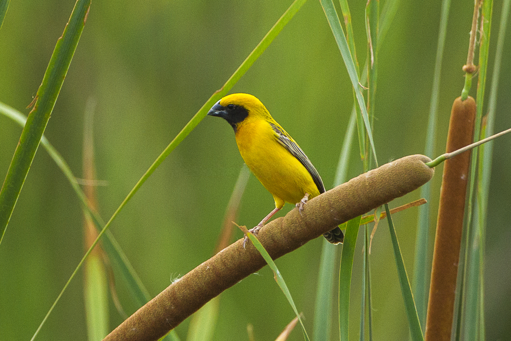 Asian Golden Weaver - Petchaburi - Thailand_S4E4522